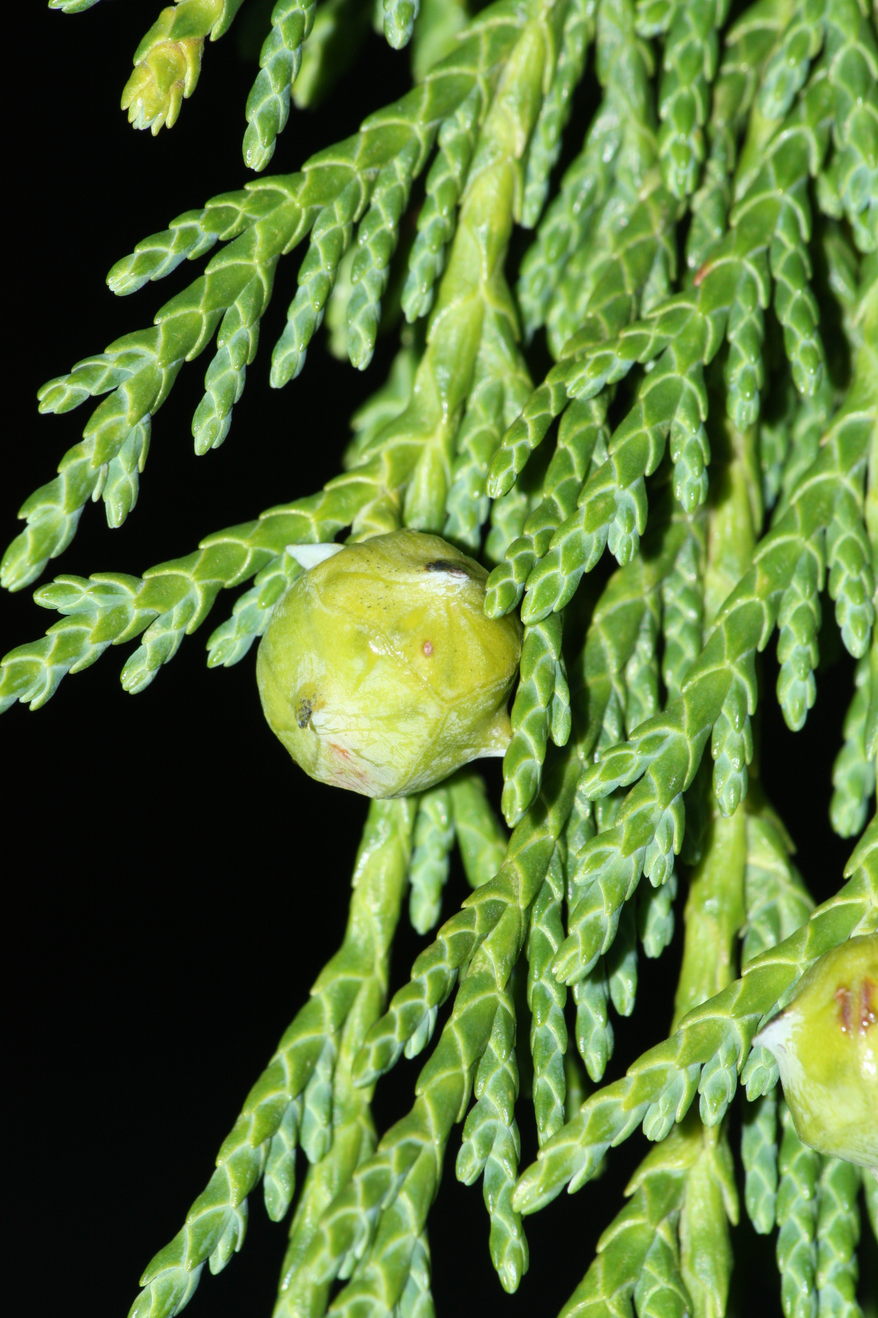 Nootka Cypress foliage and cones